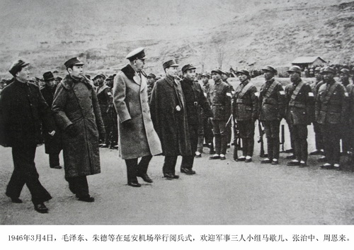 1946 Yan'an military parade. 1946年3月4日，毛澤東、朱德等在延安機場舉行閱兵式，歡迎軍事三人小組馬歇兒、張治中、周恩來。